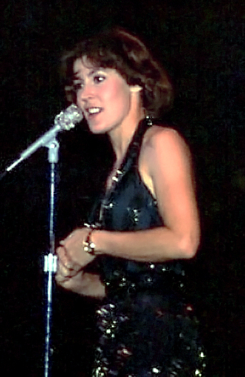 Helen Reddy in concert.